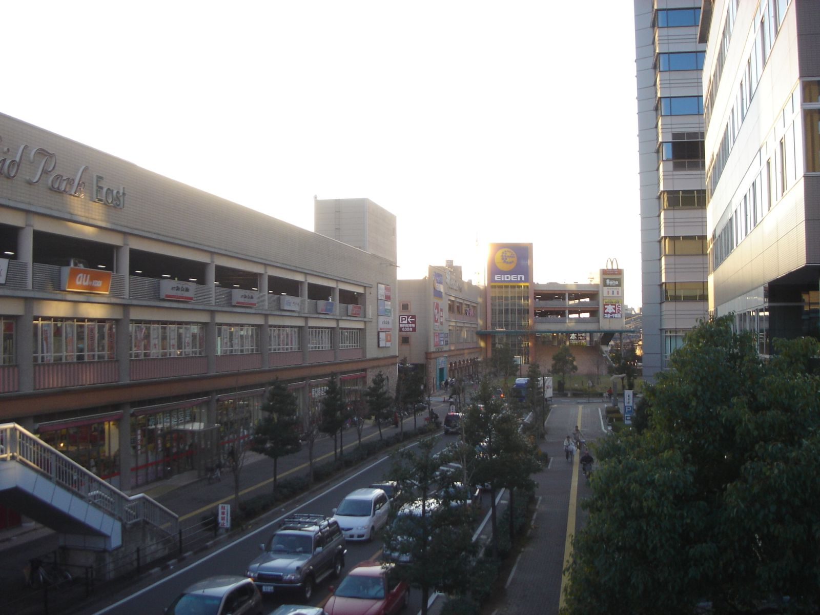 Orchid Park(Shopping mall)（オーキッドパーク）,Gifu,Gifu,Japan(岐阜県岐阜市)で撮影。